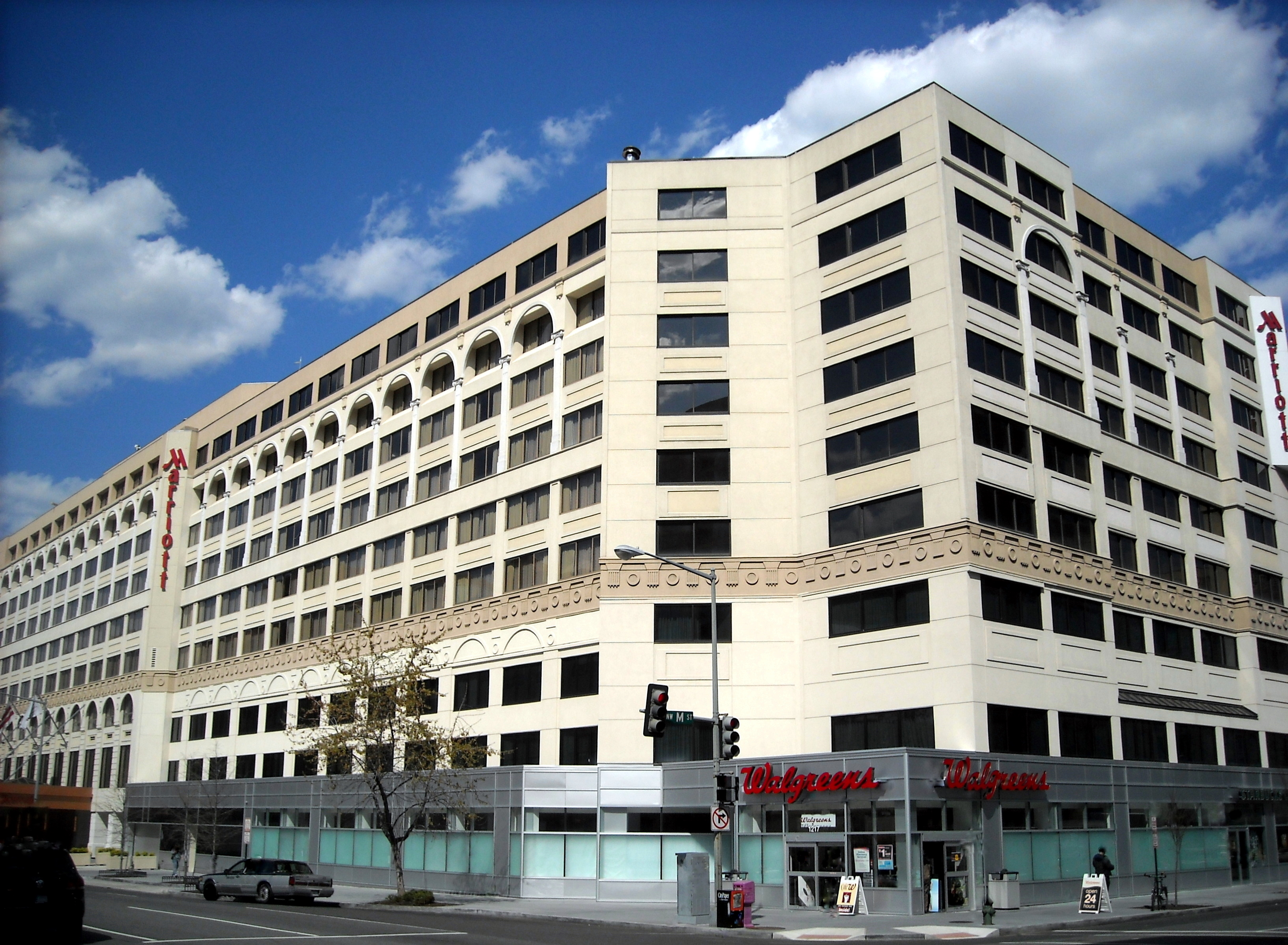 The Washington Marriott, located at 1221 22nd Street, N.W., (intersection of 22nd and M Street, N.W.) in the West End neighborhood of Washington, D.C.